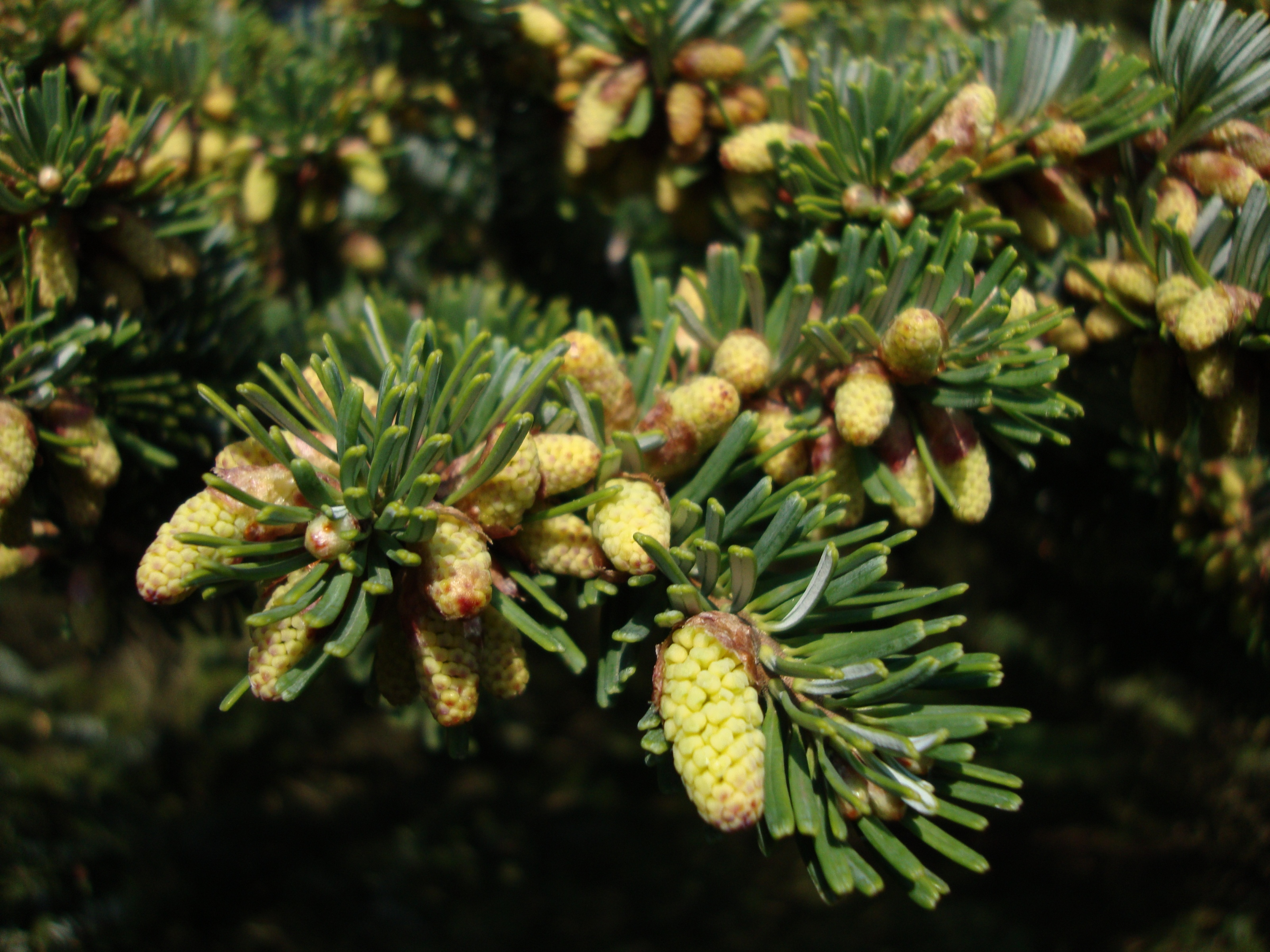 Veitch's Fir (Abies veitchii) can be found in Meilahti Arboretum in Helsinki.